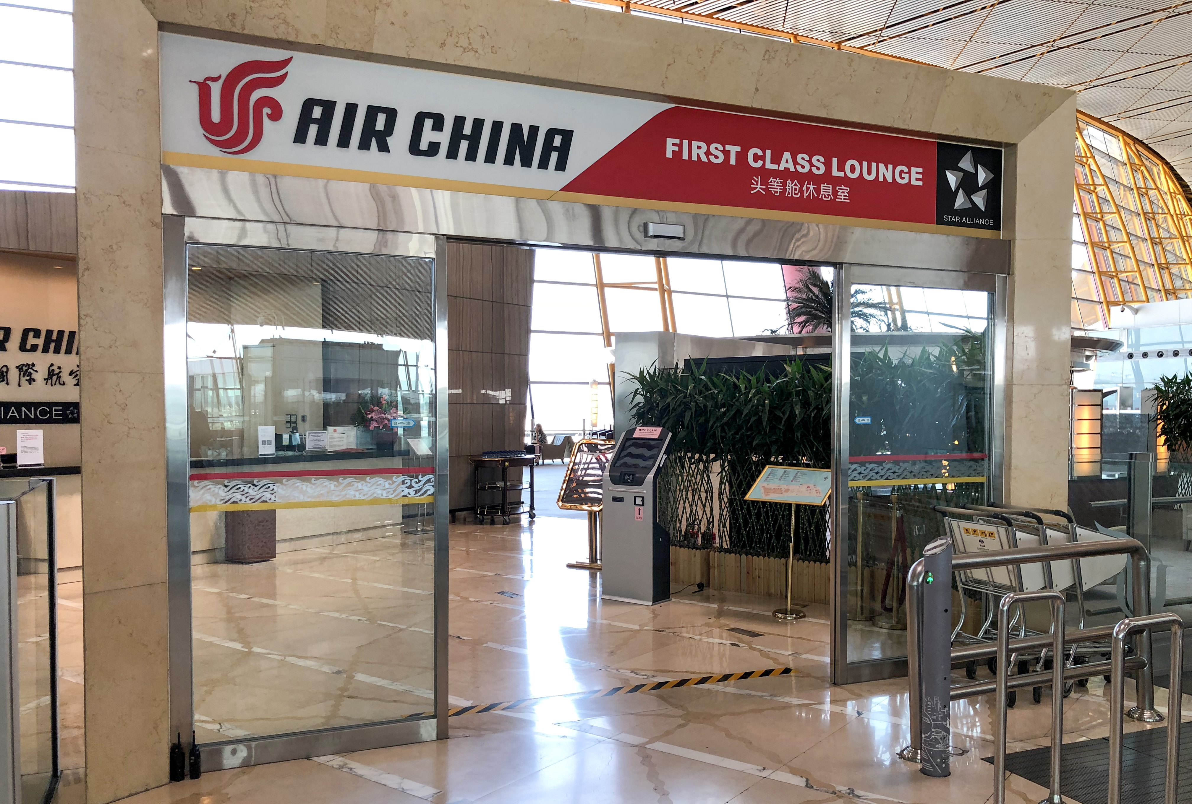 On the northwest.